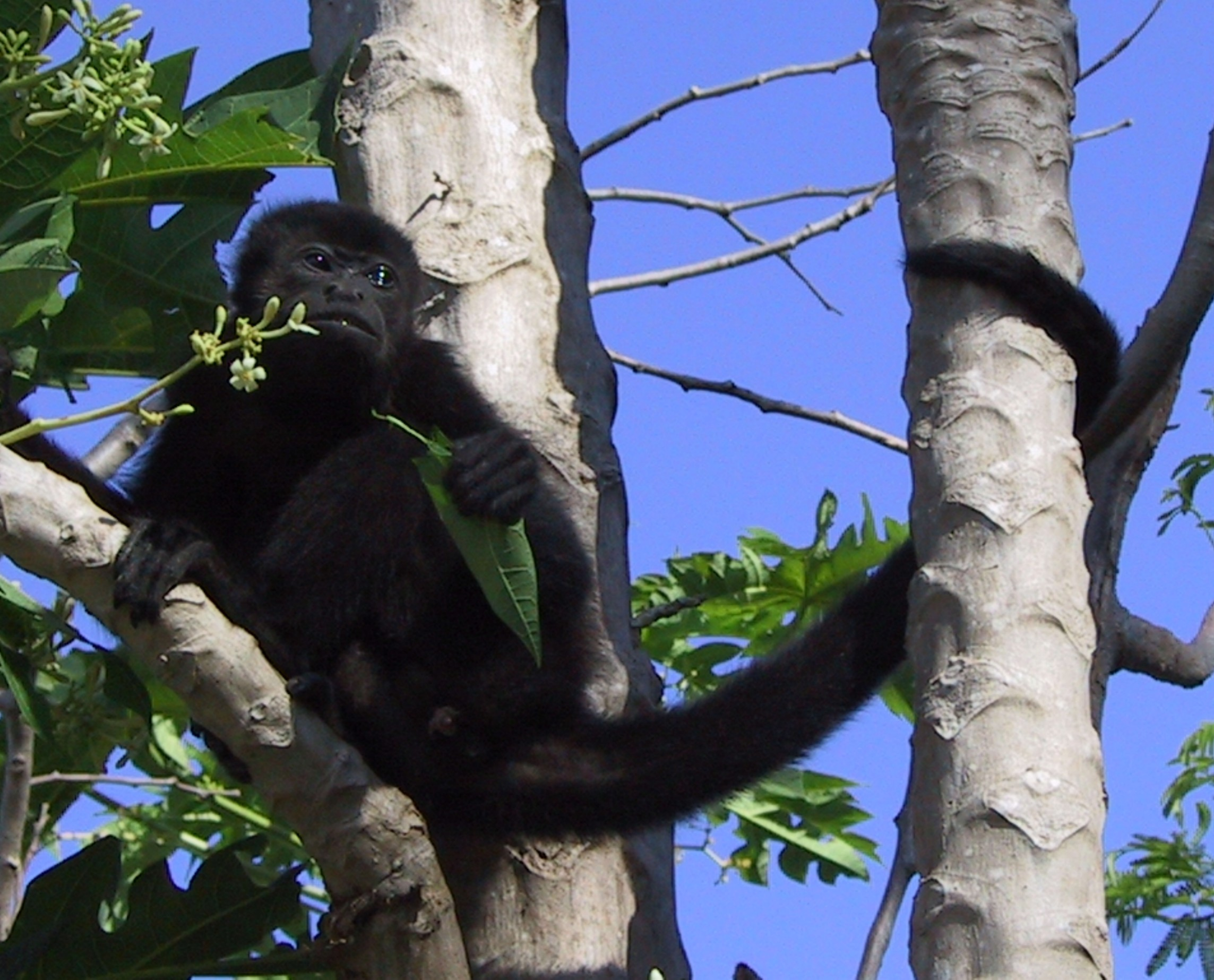 Alouatta pigra (Howler monkey), eating leaves of Carica papaya (Costa Rica, peninsula Nicoya, Cabo-Blanco)Cropped version of Howler monkey20020316 to better show the monkey when used in articles